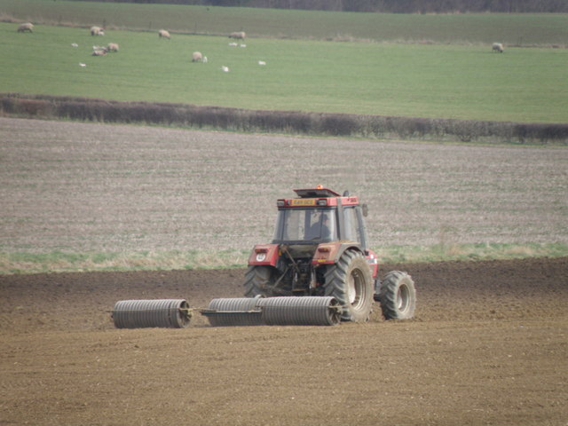 Cambridge Rolling. (Rim or) Cambridge rolls have the raised centre on each ring to consolidate the soil around the seed without sealing the soil surface.